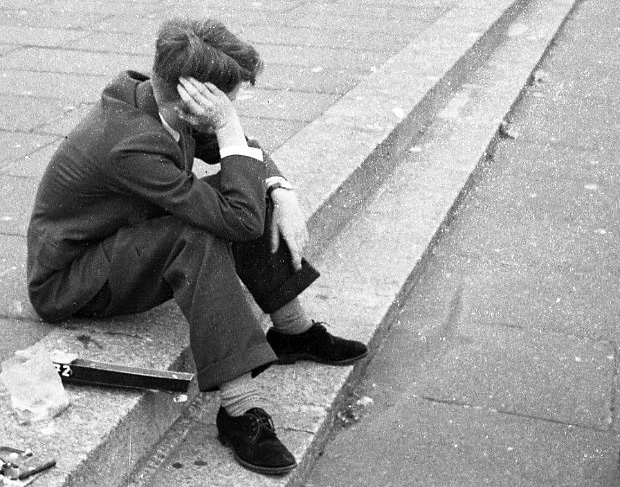 Distant tragedies - Phillip mourning the sinking of his model boat, New Brighton, Merseyside, 1959